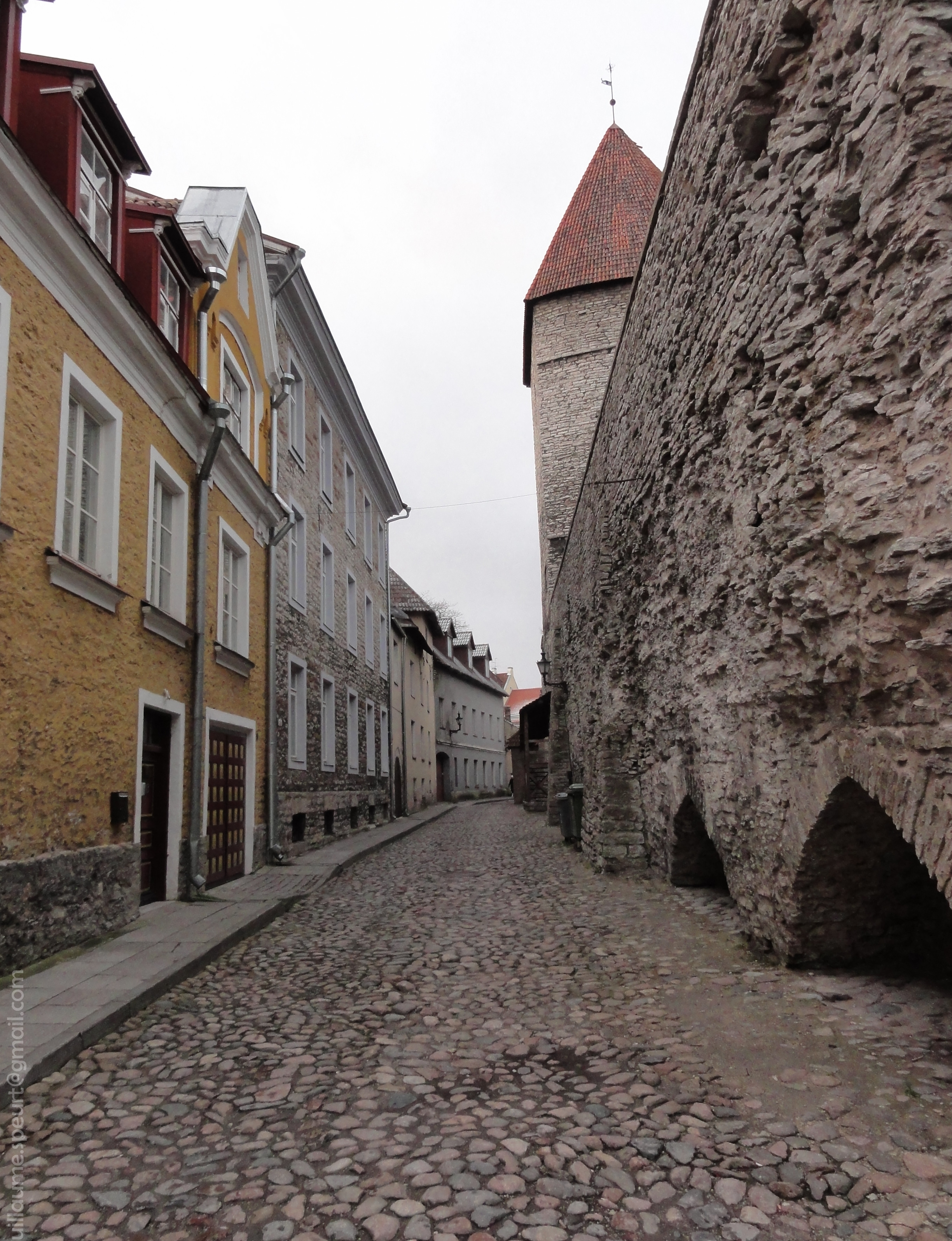 Tallinn, Estonia